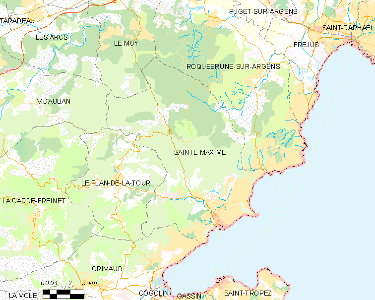 Map of French municipality Sainte-Maxime